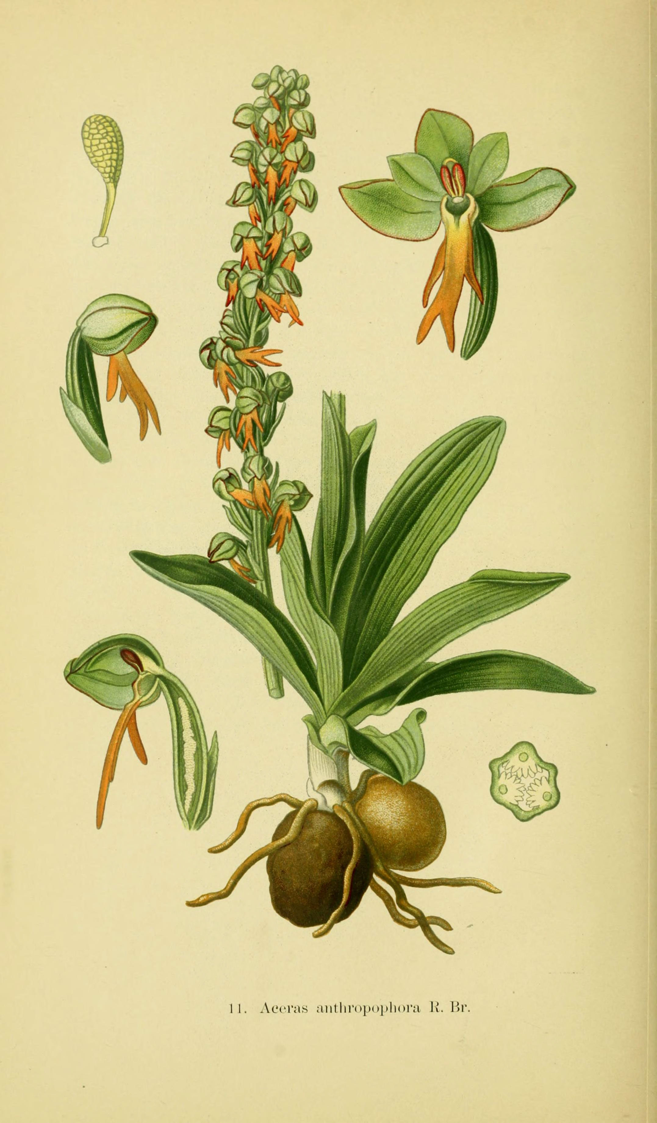 1 1 . Aceras anthropophora R. Br.